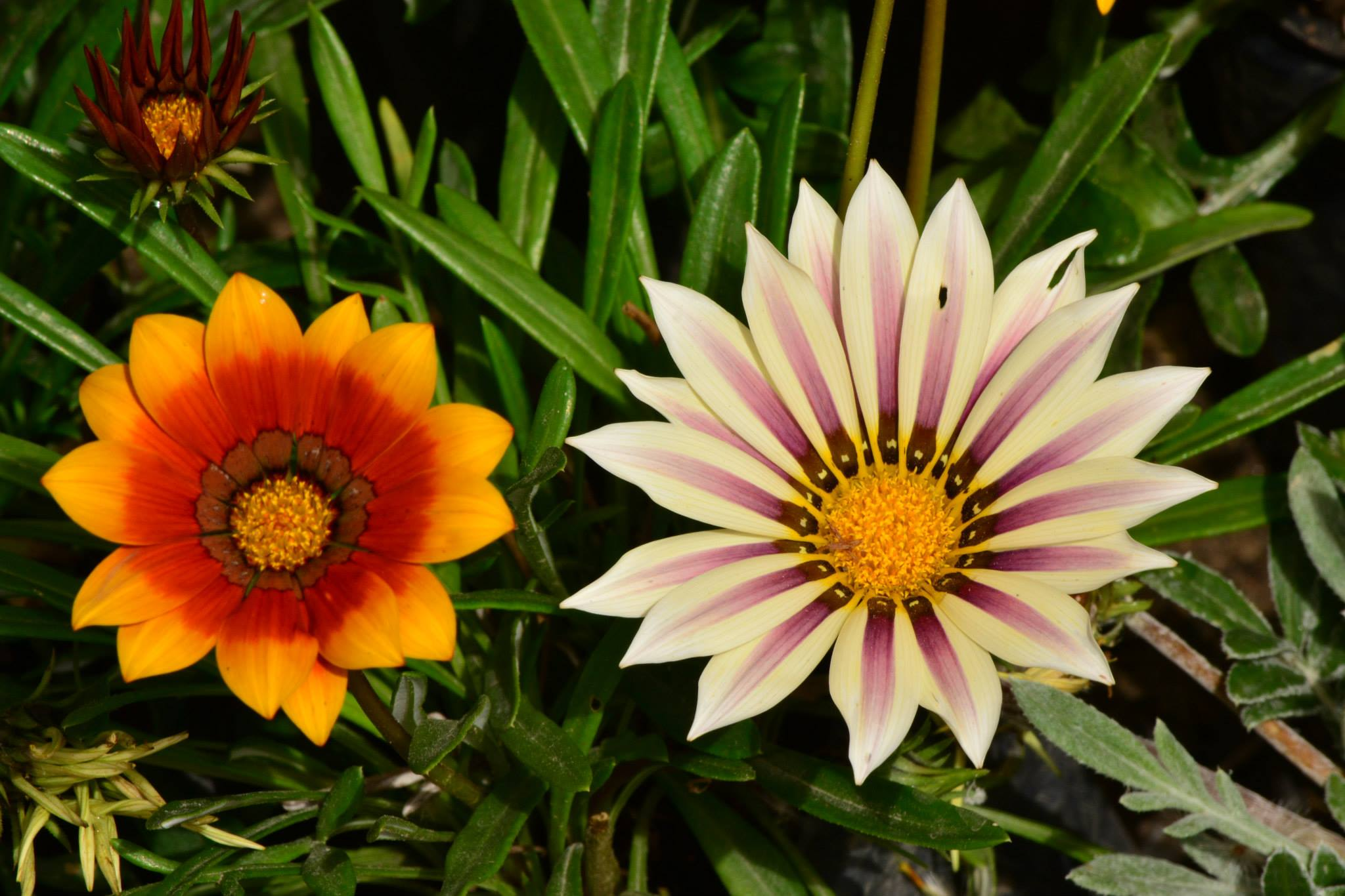 Estás flores son tradicionales del cantón. Es muy común observar estas flores dentro del cantón y también en sus lugares externos. Aproximadamente estas flores se ubican localizadas alado de las Cascadas que este posee.